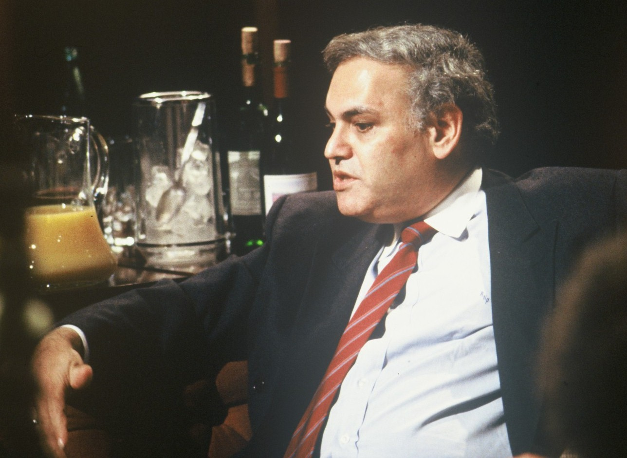 Richard Perle appearing on After Dark, 10 June 1989. Other guests included Peter Ustinov, Kenneth Minogue, Shirley Williams, Alastair Morton, Josef Joffe and Edward Heath. More here.